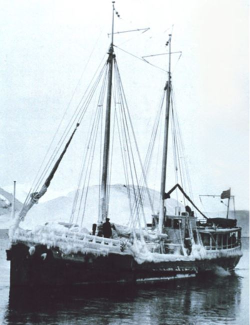 The United States Bureau of Fisheries and [United States Fish and Wildlife Service